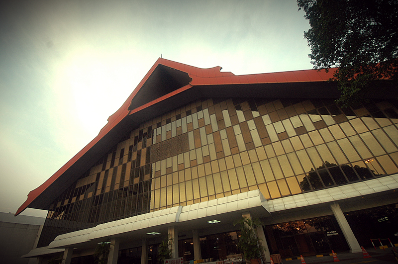 Entrance of Putra World Trade Centre.